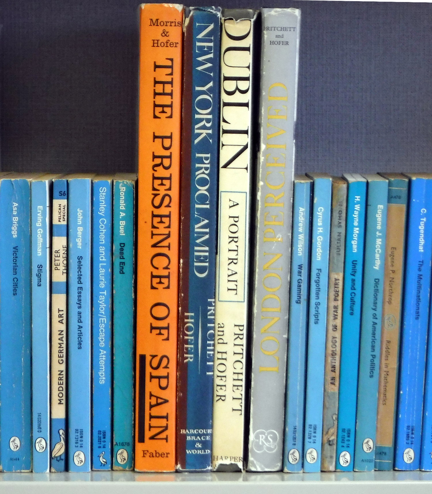 Some photobooks by Evelyn Hofer (flanked by irrelevant Pelicans)